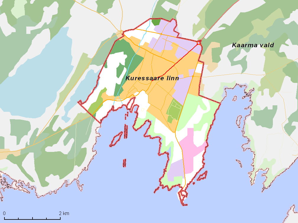 Map of municipality in Estonia